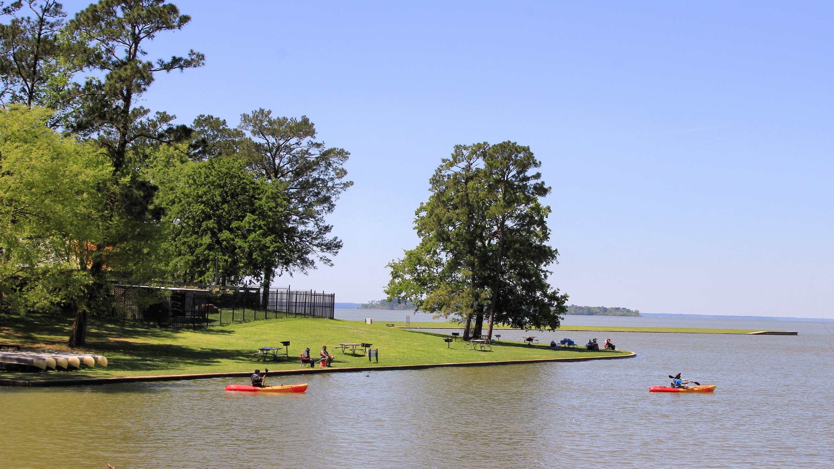 Day use area at Lake Livingston State Park, Texas, United States